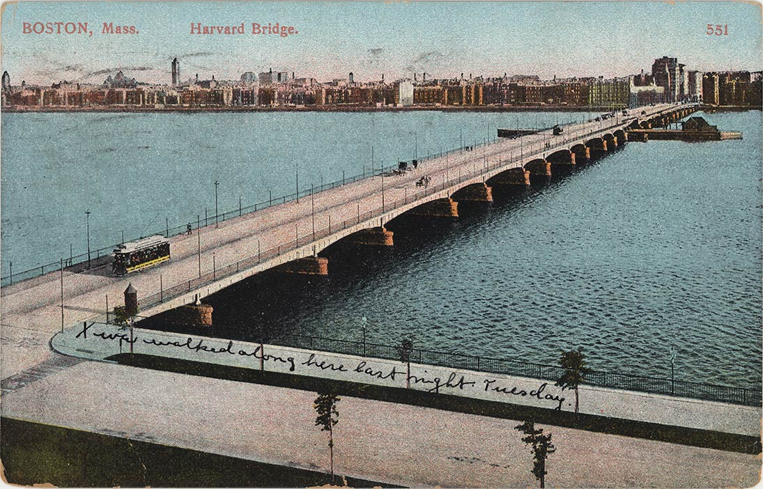 Harvard Bridge over the Charles River, looking toward Boston, Massachusetts in 1910. The postcard user dated her note 1910-06-22. You can see the Boston skyline as of the first decade of the 20th century in this image.